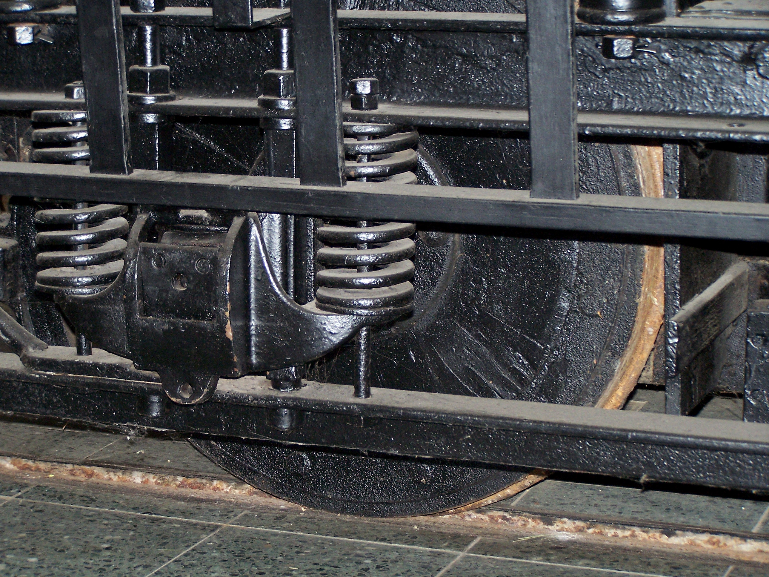 wooden wheel with iron wheel rim of the tram 8 (1884) of the FOTG in the Frankfurt on Main Transport Museum in Frankfurt am Main--Schwanheim